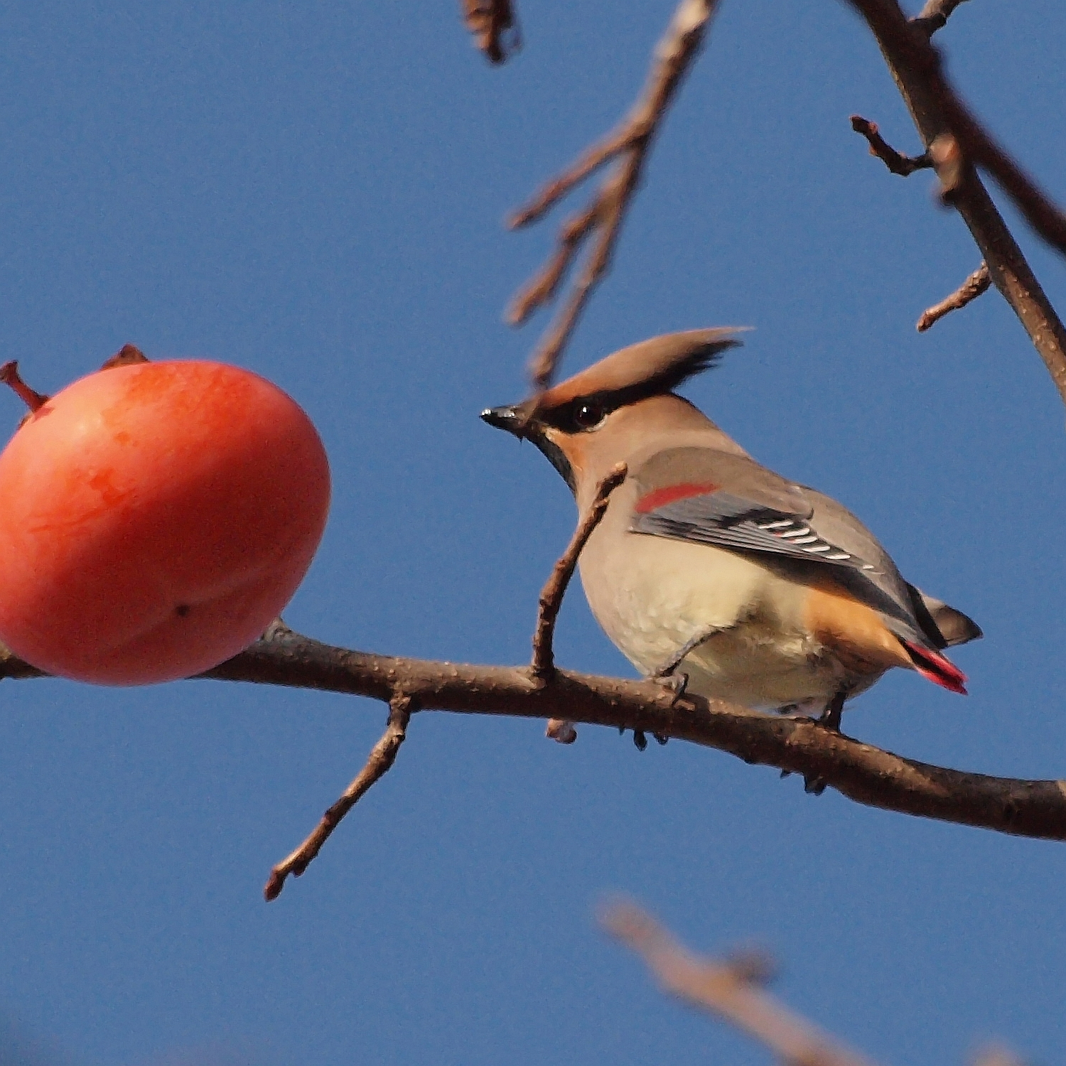 Japanese Waxwing Bombycilla japonica feeding on Persimmon fruit, Nara, Japan.